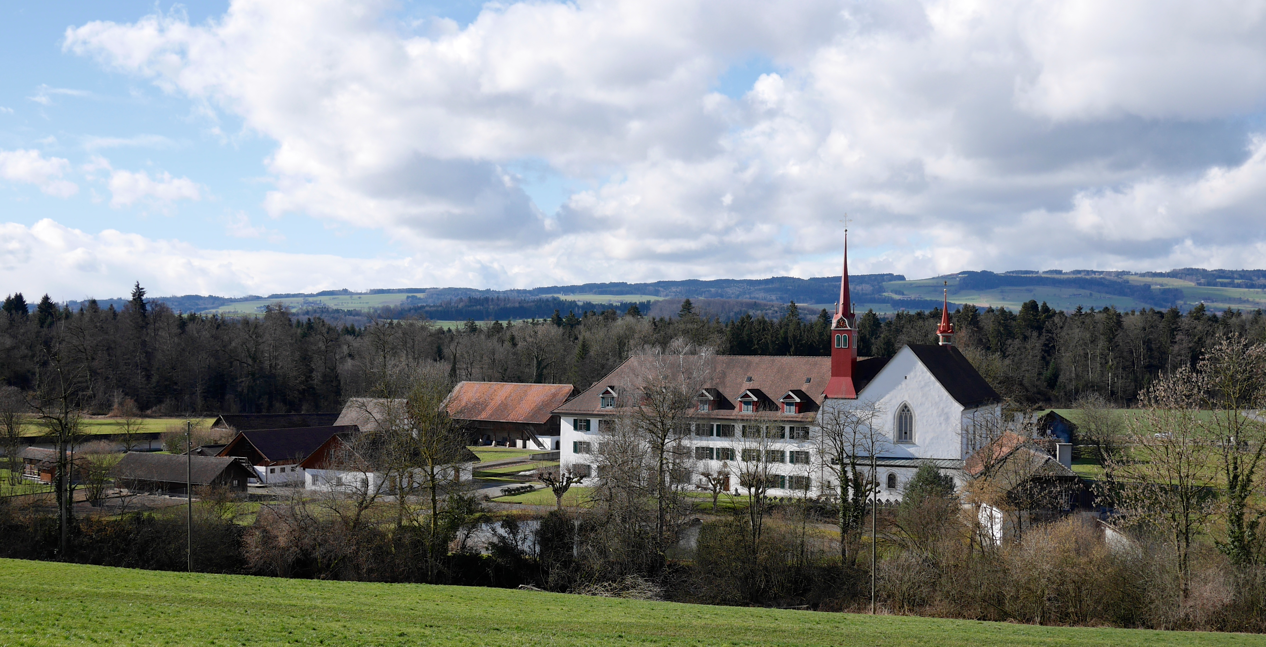 Monastery of Cistercian Nuns, Frauenthal, Cham, Canton of Zug, Switzerland